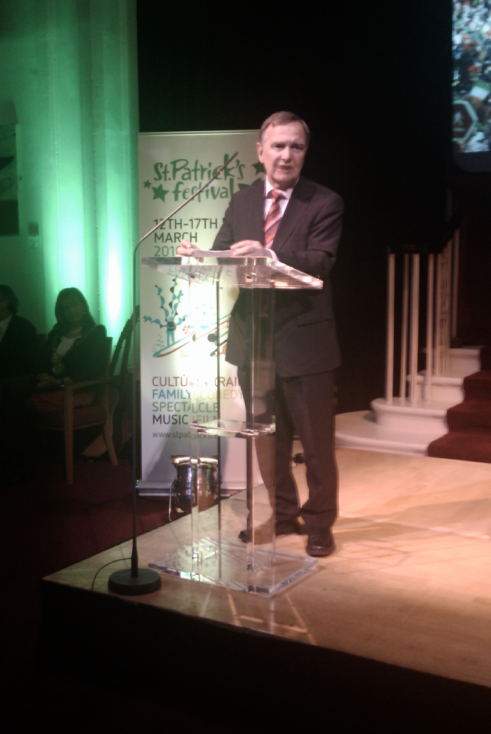 Martin Cullen launching the St Patrick's Festival 2010